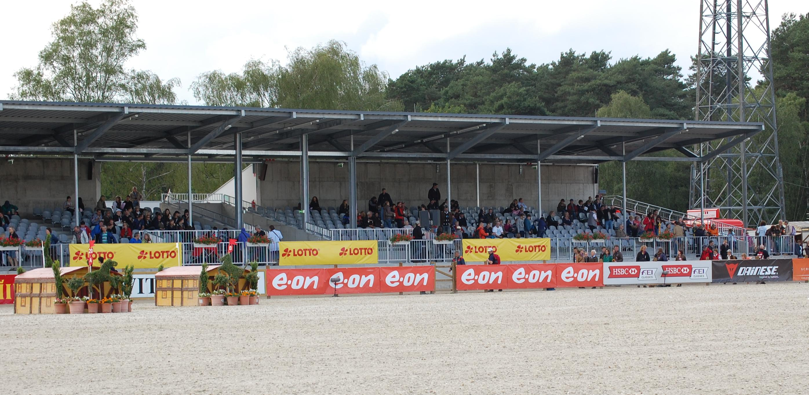 Show ground of Luhmühlen, new west side after 2010/2011 rebuild